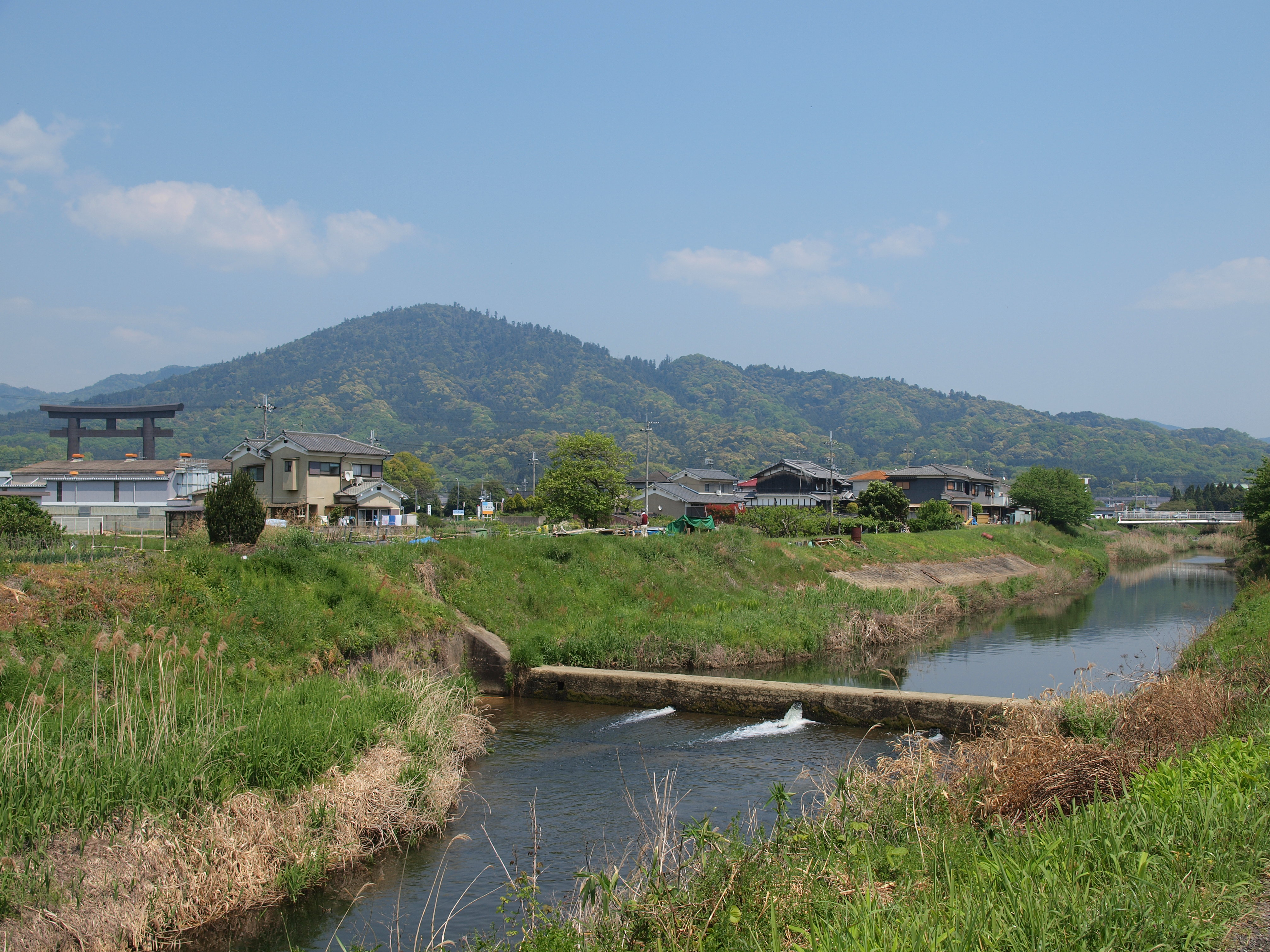 Yamato River in Sakurai, Nara.